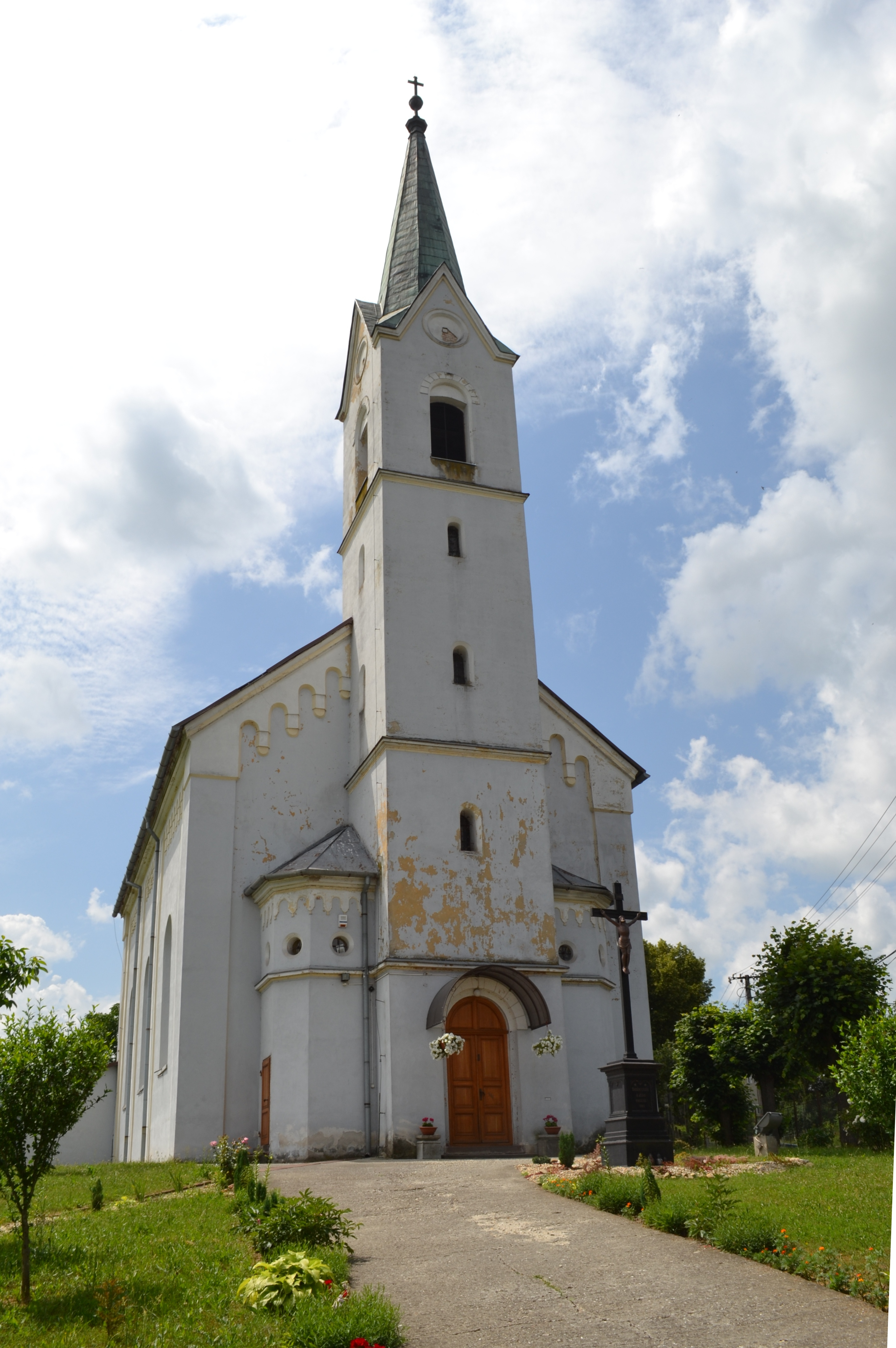 Church of the Visitation in JesenskéSlovenčina: Kostol Navštívenia Panny Márie v Jesenskom